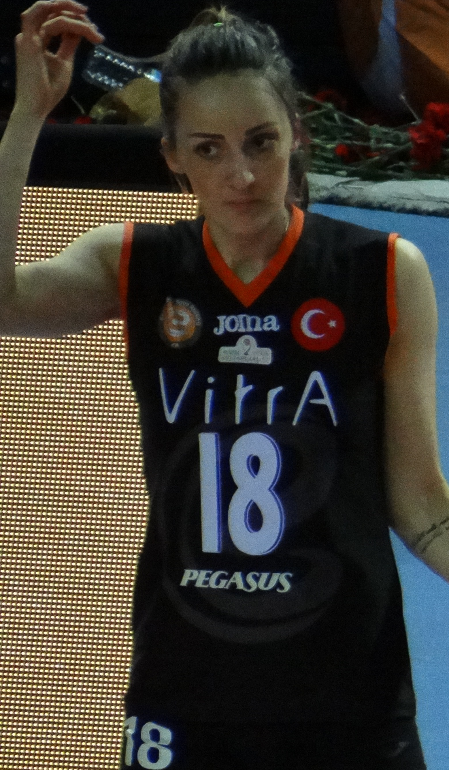 Maja Ognjenović 18, Beyza Arıcı 4, Rachael Adams 8 & Gözde Yılmaz 14 Eczacıbaşı VitrA TWVL 20180426